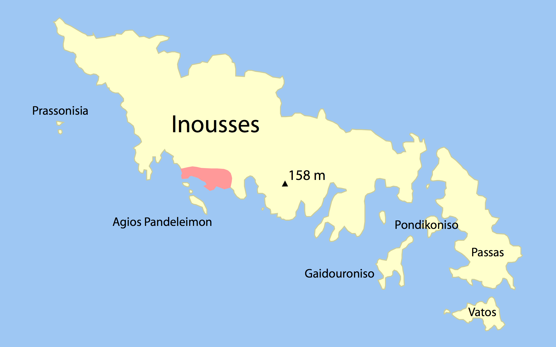 Position fo the greater islands of Inousses, Chios prefecture, Greece